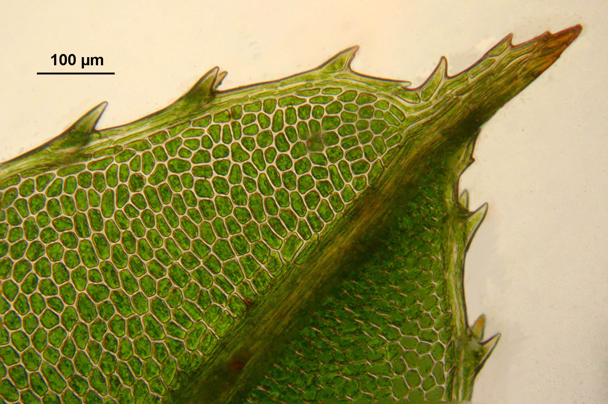 Mnium marginatum